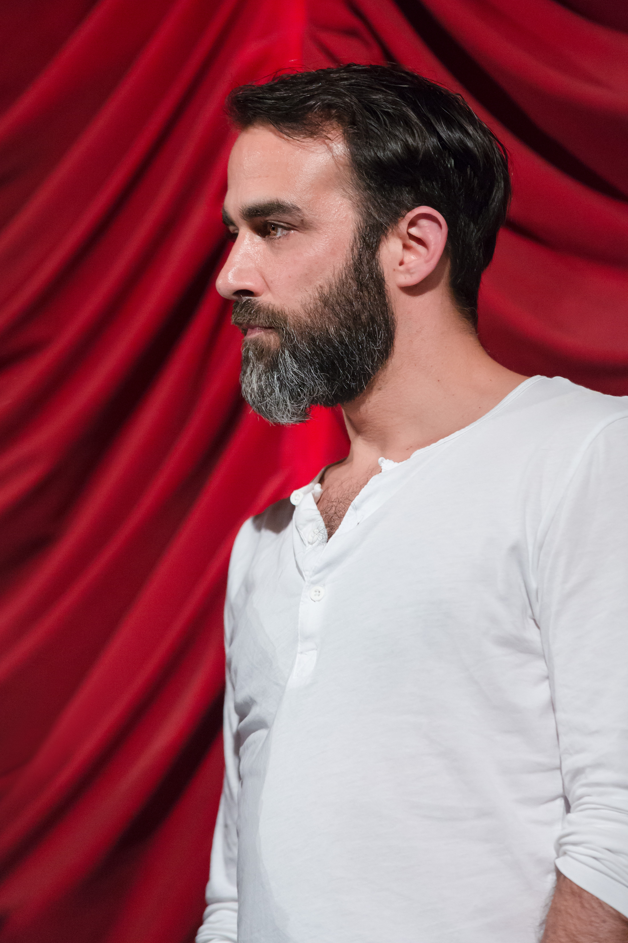 Philipp Stix at the Viennese premiere of The Best Of All Worlds at Gartenbaukino, Vienna, Austria.